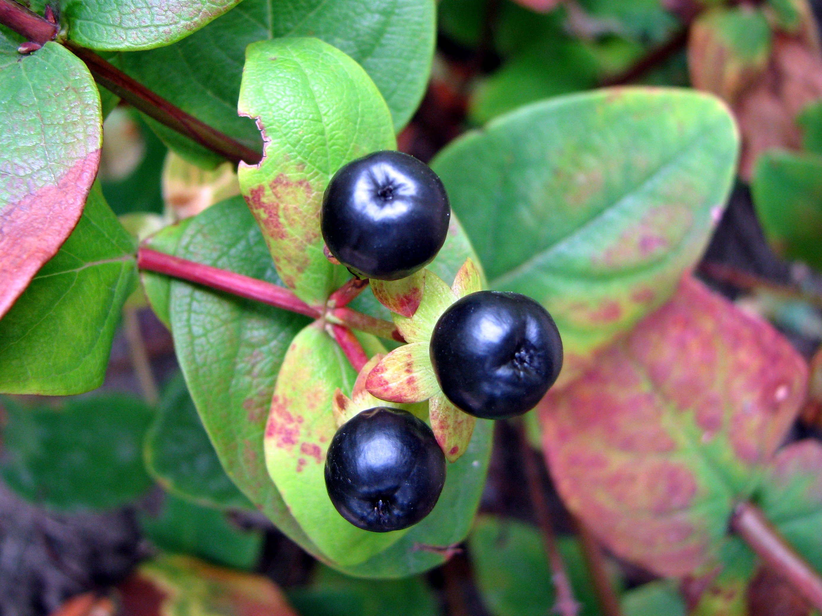 Sweet-amber Hypericum androsaemum fruits, plant cultivated in Wrocław University Botanical Garden, Poland.